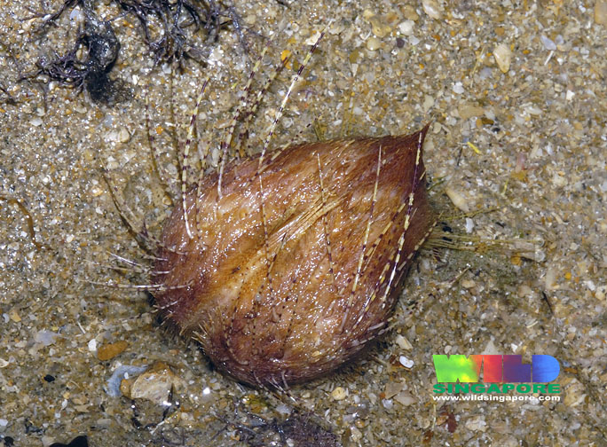 Upperside of living heart urchin (Lovenia elongata) More about this heart urchin on the wildfacts sheets on wildsingapore. For a high res version of this photo, please review the details on about using my photos. When making the request, please include this reference: 040731kusd3539